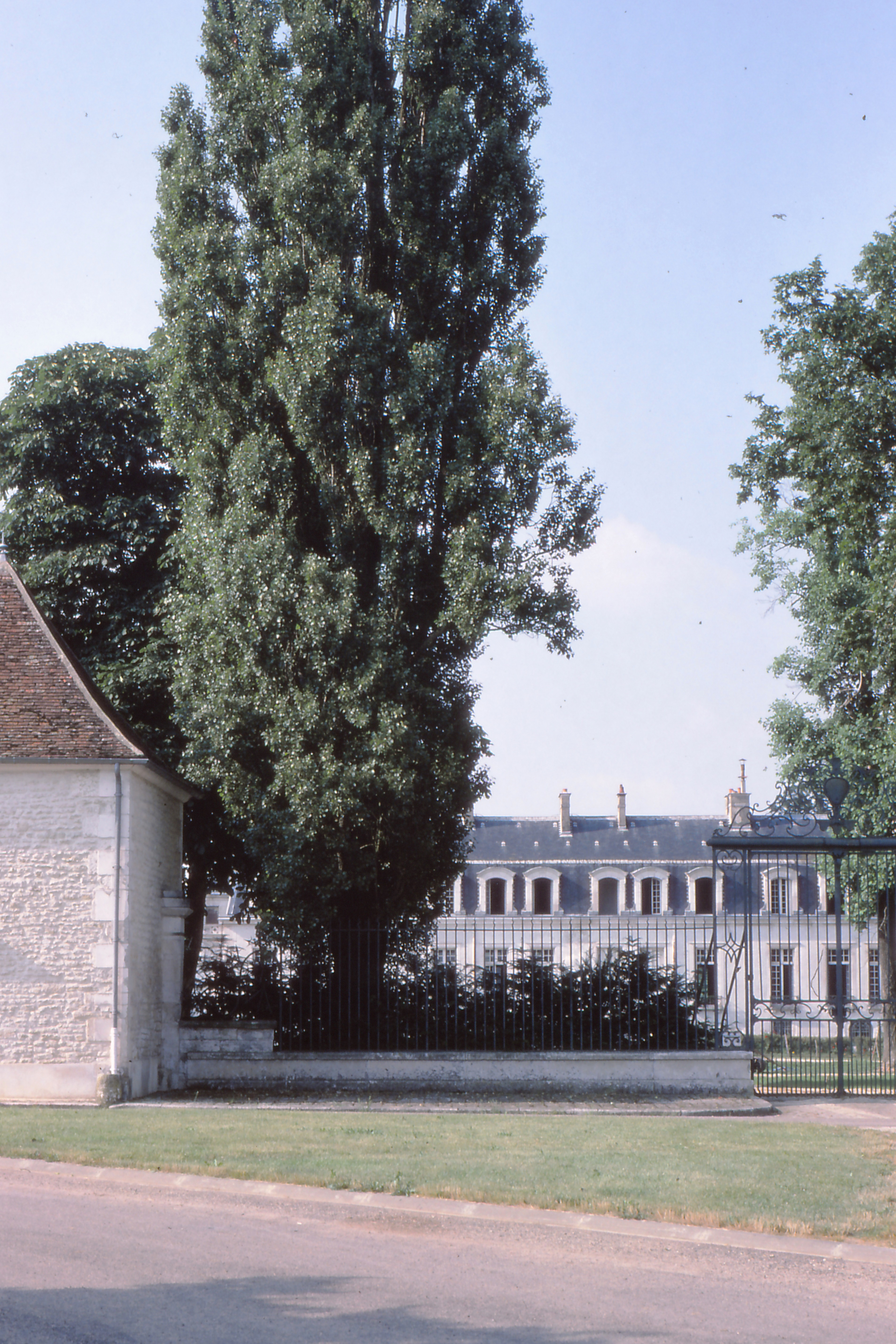 Serrigny 1979